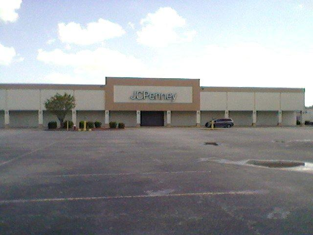 Took this picture yesterday of the now-shuttered JCPenney at Elizabeth City, NC's Southgate Mall. This was one of the 40 that were announced to be closing at the beginning of the year. From what I've learned (mainly from a DeadMalls link and from asajuana's posts), this location originally opened as a W.T. Grant with the mall in 1969; then became a Roses when W.T. Grant began shutting down around 1974. That led to Roses occupying that space until it became one of several Roses to close as a result of being blindsided by the rise of Wal-Mart; with JCPenney (which had moved to the mall in 1985) moving next door two years later.